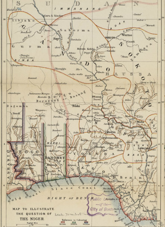 "Map to Illustrate the Question of the Niger" (1:4,435,200). Detail of: Maps to Illustrate the Niger and Upper Nile Questions Author: W. & A. K. Johnston Publisher: Johnston, W. & A. K. Date: 1898 Location: Africa, Africa, North, Africa, West, Darfur (Sudan), Niger River, Nigeria, Nile River, Sudan Dimension: 51.0 x 44.0 cm. Call Number: G8201.P53 1898 .J65